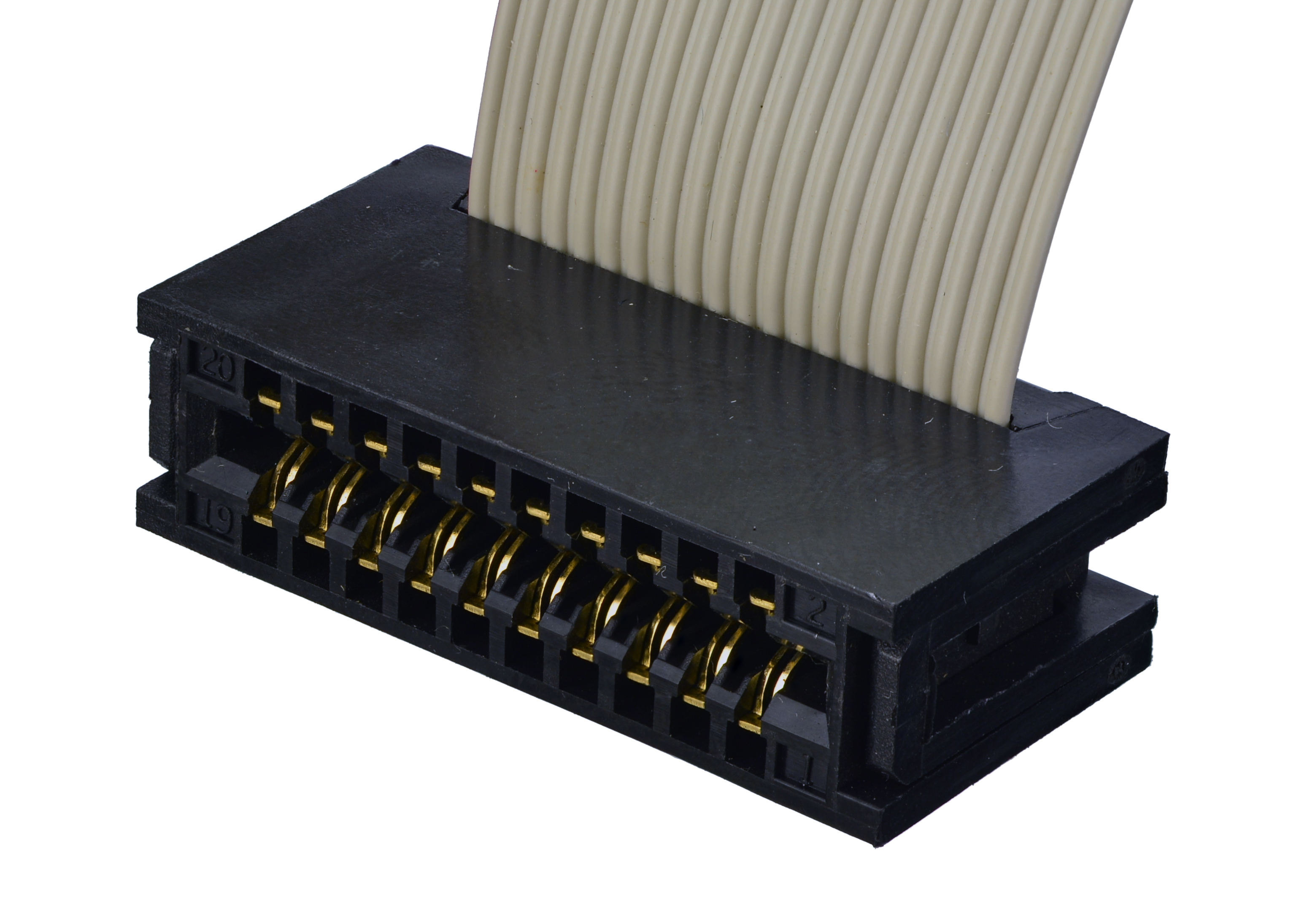 A ST506/ST412 HDD Data connector, showing the pins. This cable came from the Tower AT System 220 personal computer by Schneider Computer Division released in 1988.